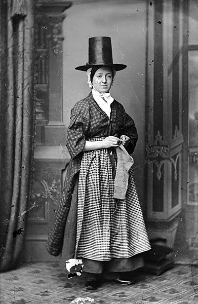 1 negative : glass, wet collodion, b&w ; 11 x 16.5 cm.